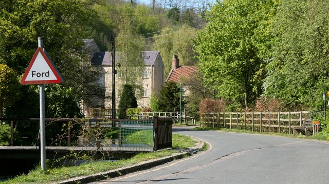 Priestman's Lane. Ahead Priestman's Lane turns through some 90° anticlockwise toward its junction with Ellerburn Road. On the cusp of the bend is Thornton Mill with Mill house just to the right of it. Before the lane reaches the bend it crosses a dry 440807. At the ford a public footpath leaves the lane and follows the beckside upstream toward Ellerburn. For a photograph that shows a more westerly (taken from ahead and beyond the cusp of the bend) view of Priestman's Lane, click here 440811. For a more southerly (behind the viewpoint) photograph of the lane, click here 440400.